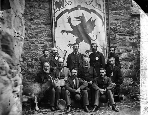 1 negative : glass, wet collodion, b&w ; 12.5 x 10 cm.